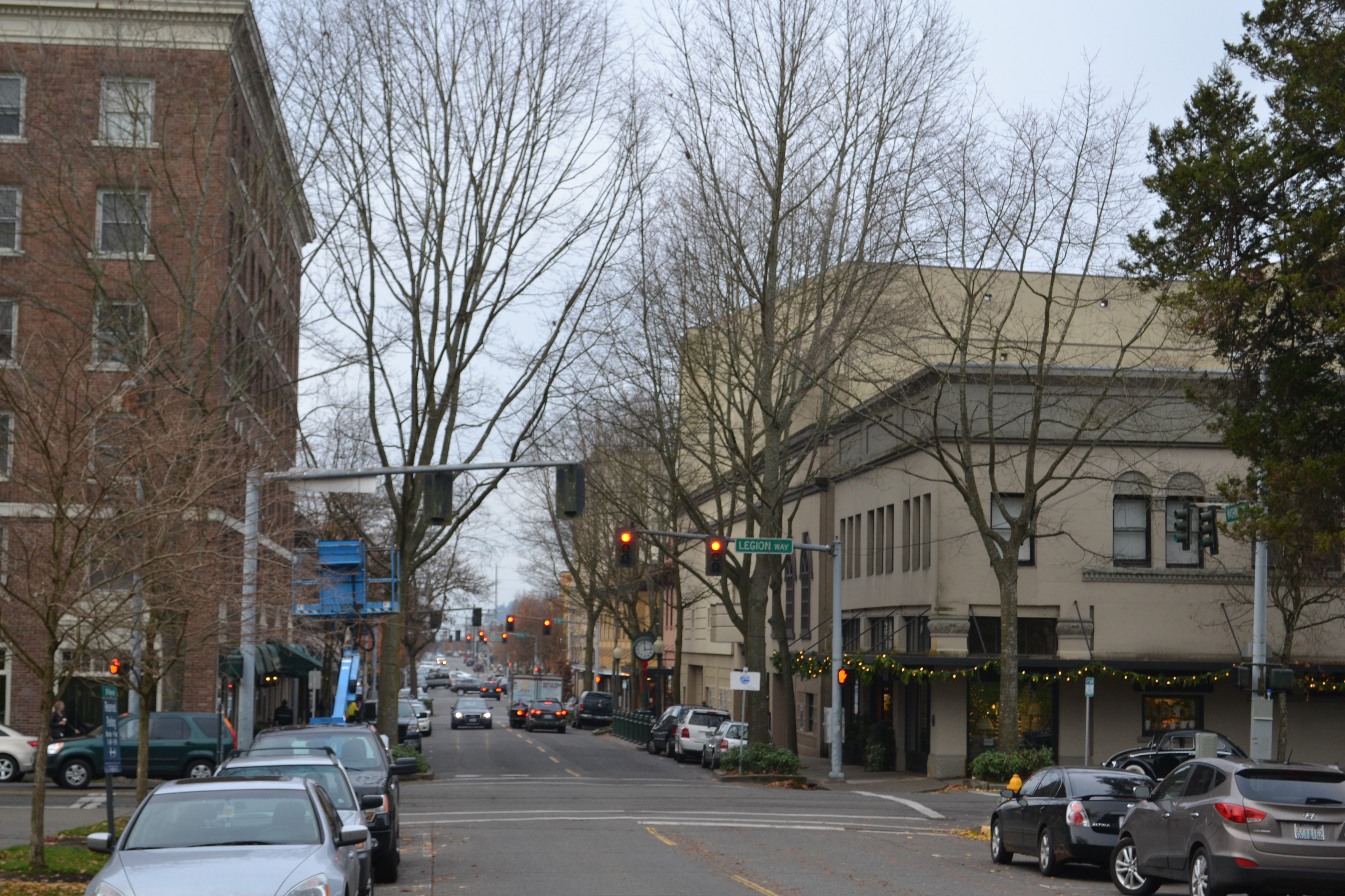 Washington and Legion streets